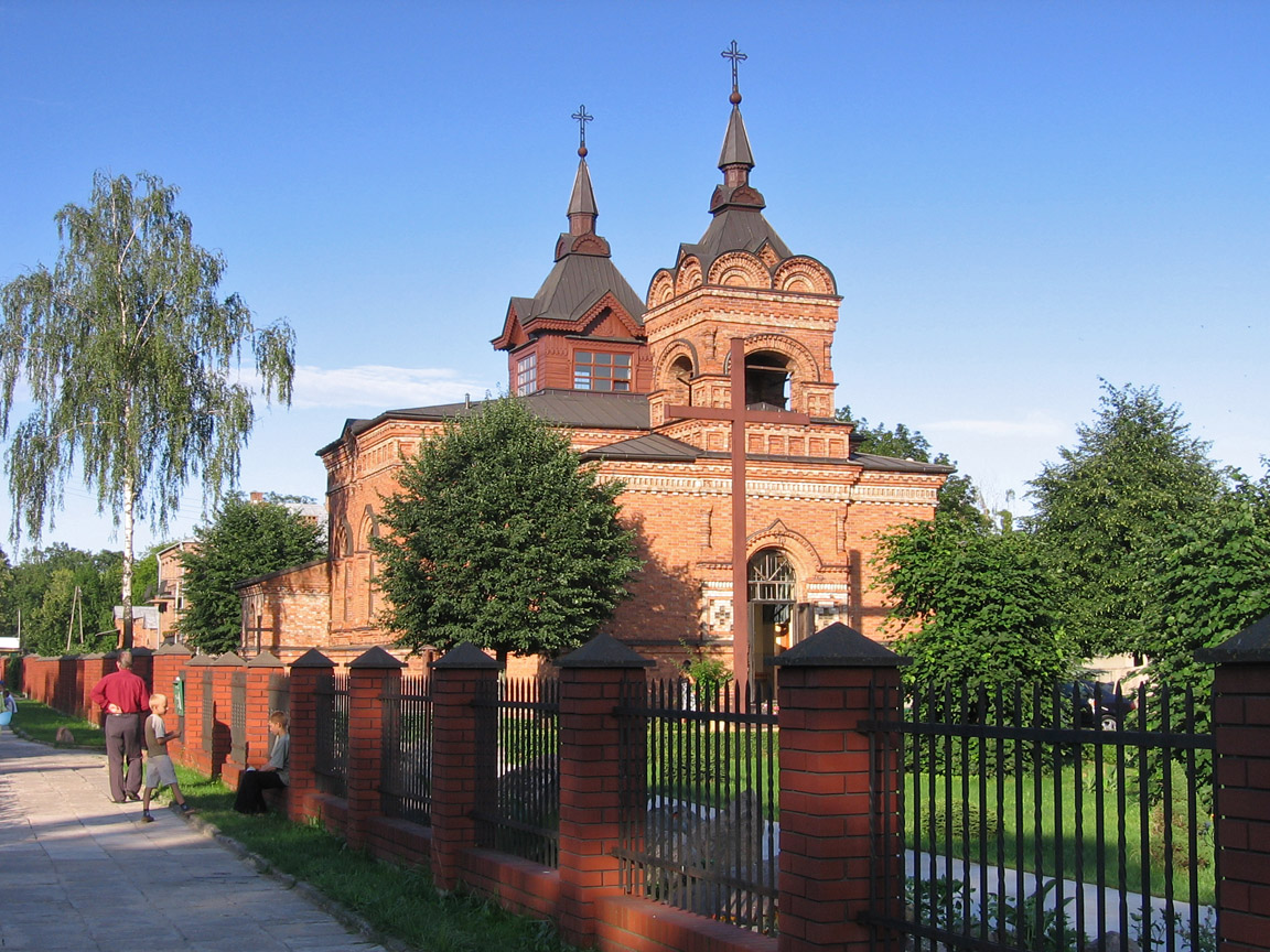 City of Ostroleka (Poland), church of Saint Adalbert of Prague.